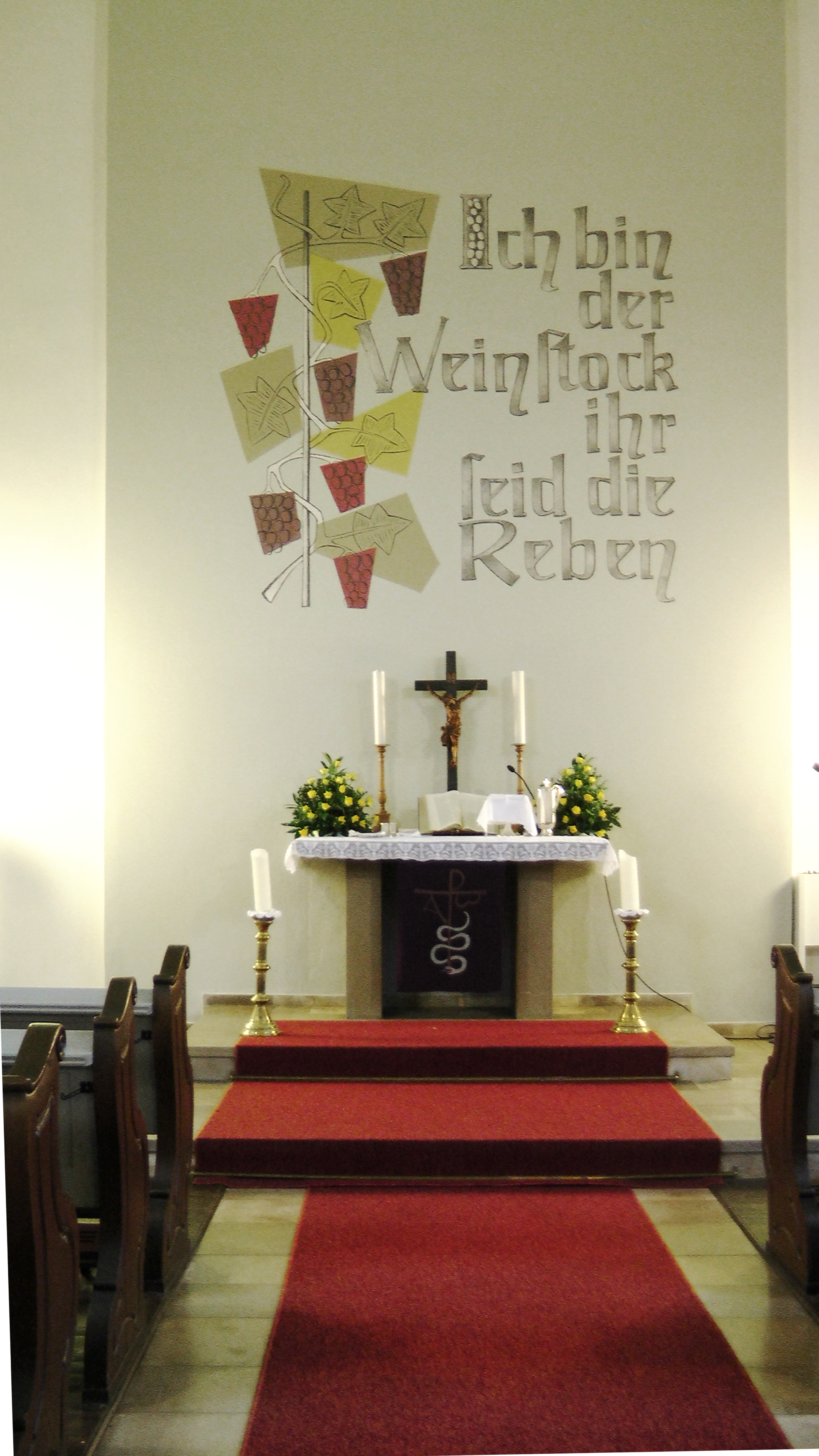 Simultaneum Brauneberg - protestant part - Altar